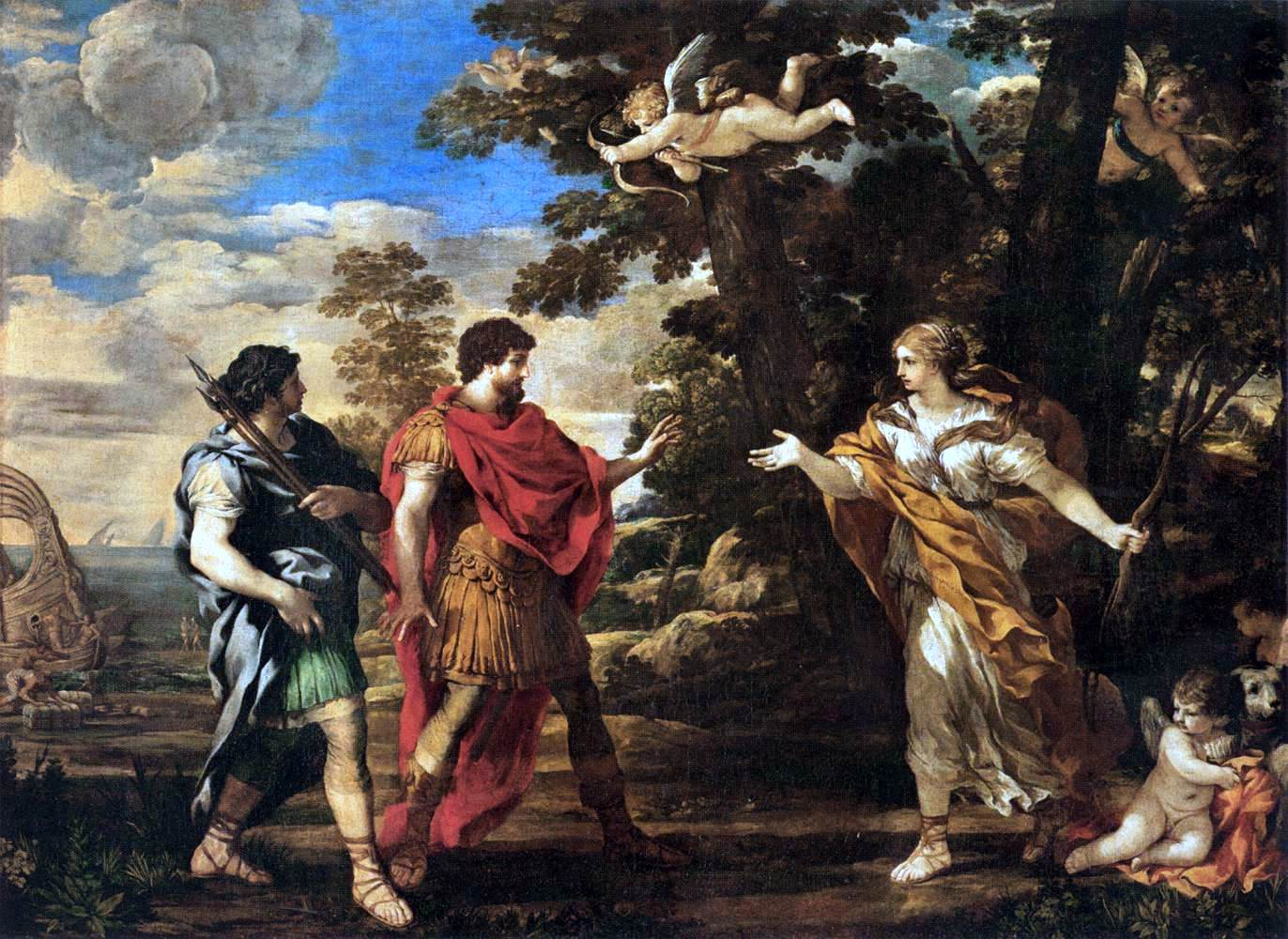 The goddess Venus, the mother of Aeneas, appeared him twice, first in the midst of burning Troy to bid him be on his way. Later, when the Trojans were washed ashore near Carthage after the storm at sea, Aeneas and his friend Achates set out to explore. Venus appeared once more, this time with bow and quiver disguised as a huntress, to direct them to Dido's palace. The artist depicted in this picture the second appearance.